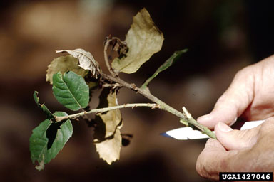 Photograph of twig showing "Sudden Oak Death" caused by Phytophthora ramorum Photograph Number: UGA1427046